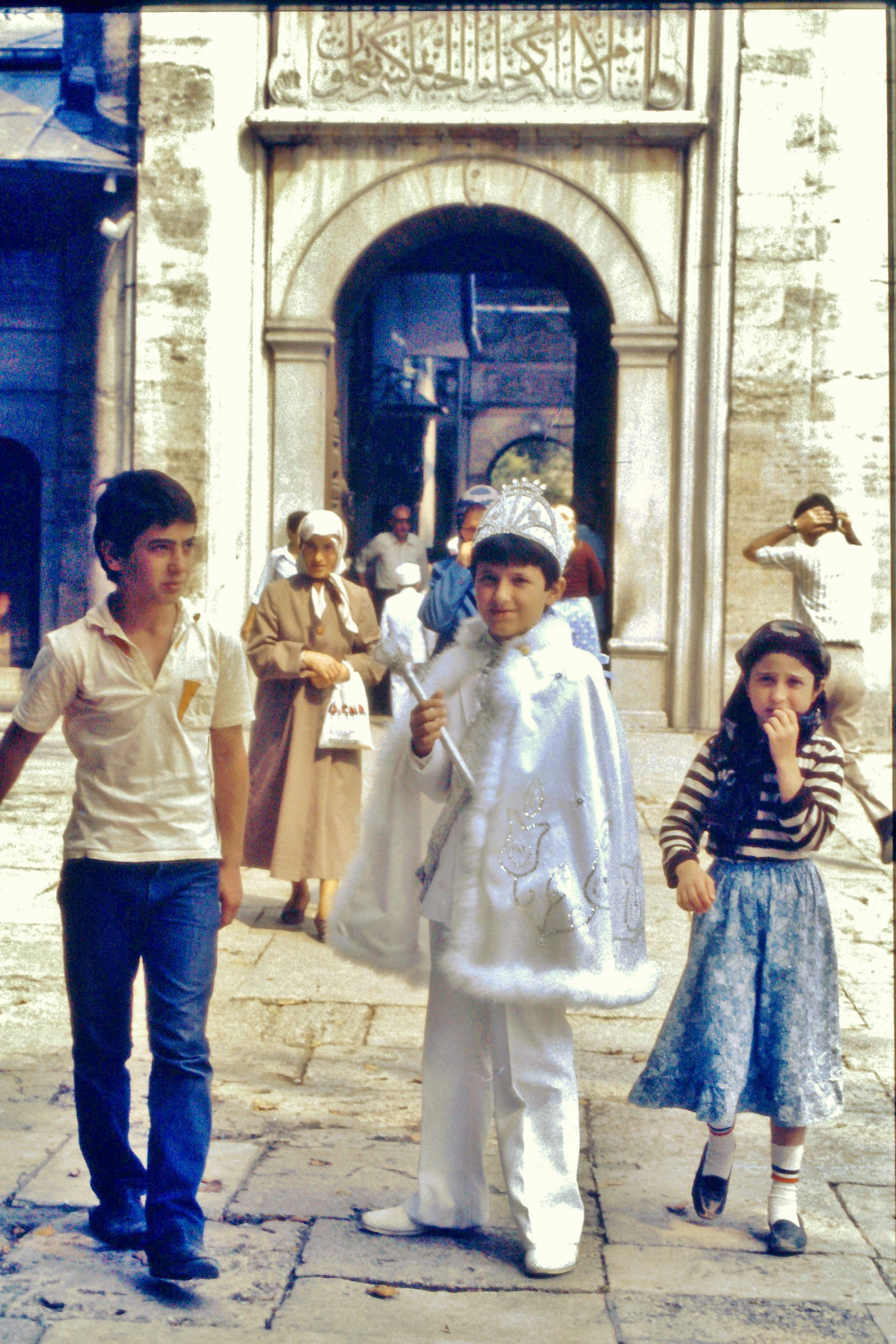 Circumcision. Turkish boy in traditional costume. Istanbul 1983